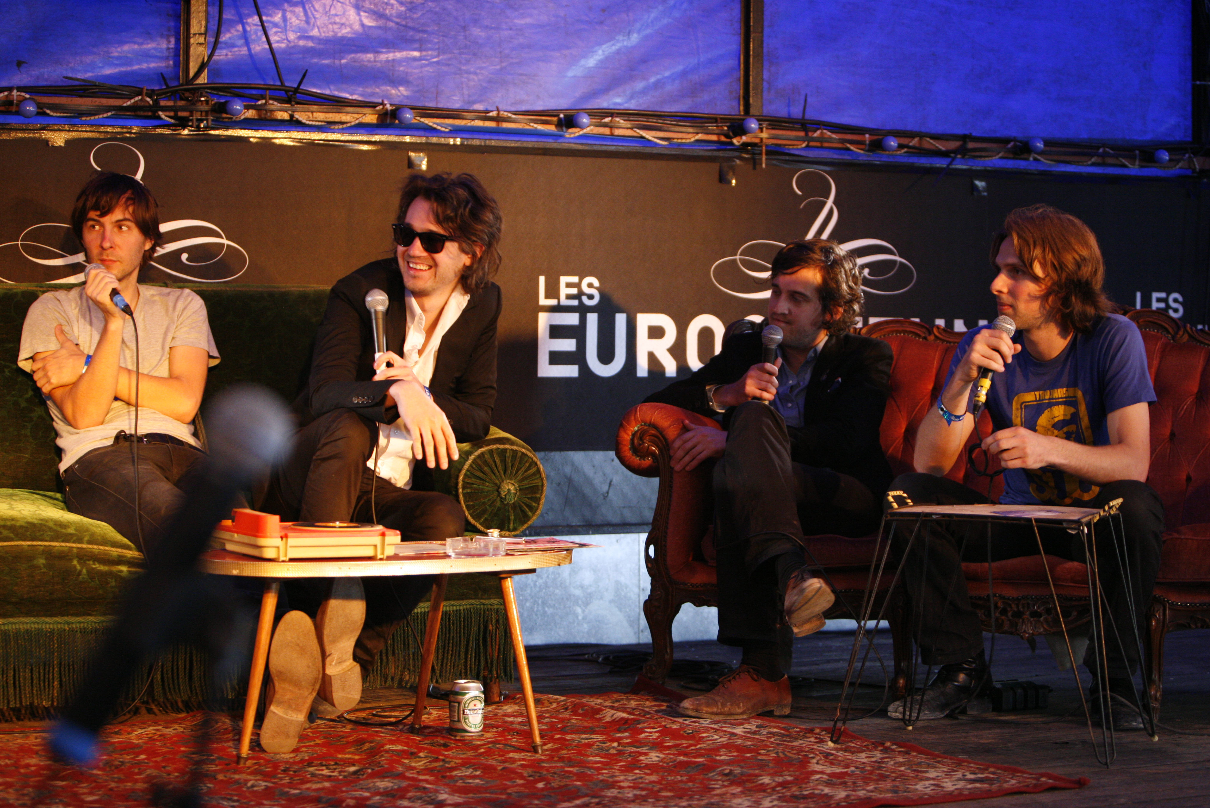 Phoenix at the Eurockéennes of 2007